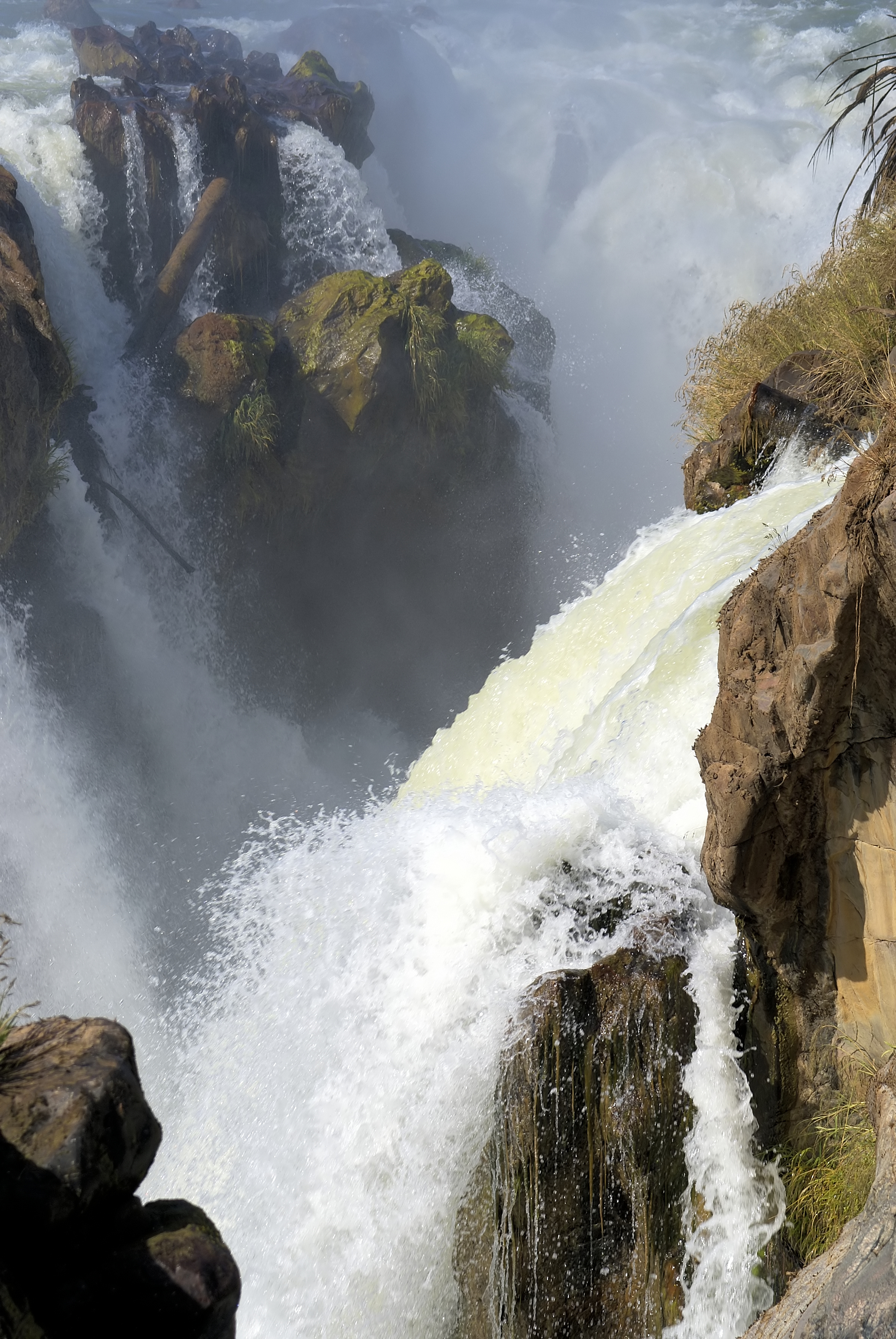 Chasm at the Epupa Falls on the Kunene river, Namibia.